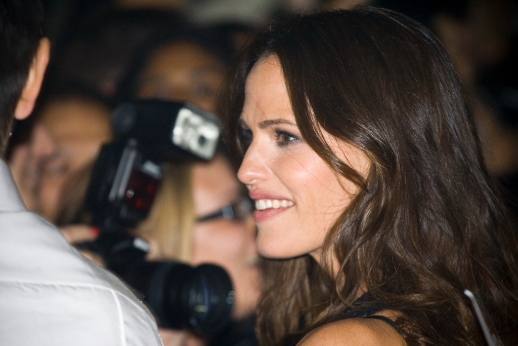 At the premiere of "The Town", directed by Ben Affleck, during the Toronto International Film Festival, 2010.